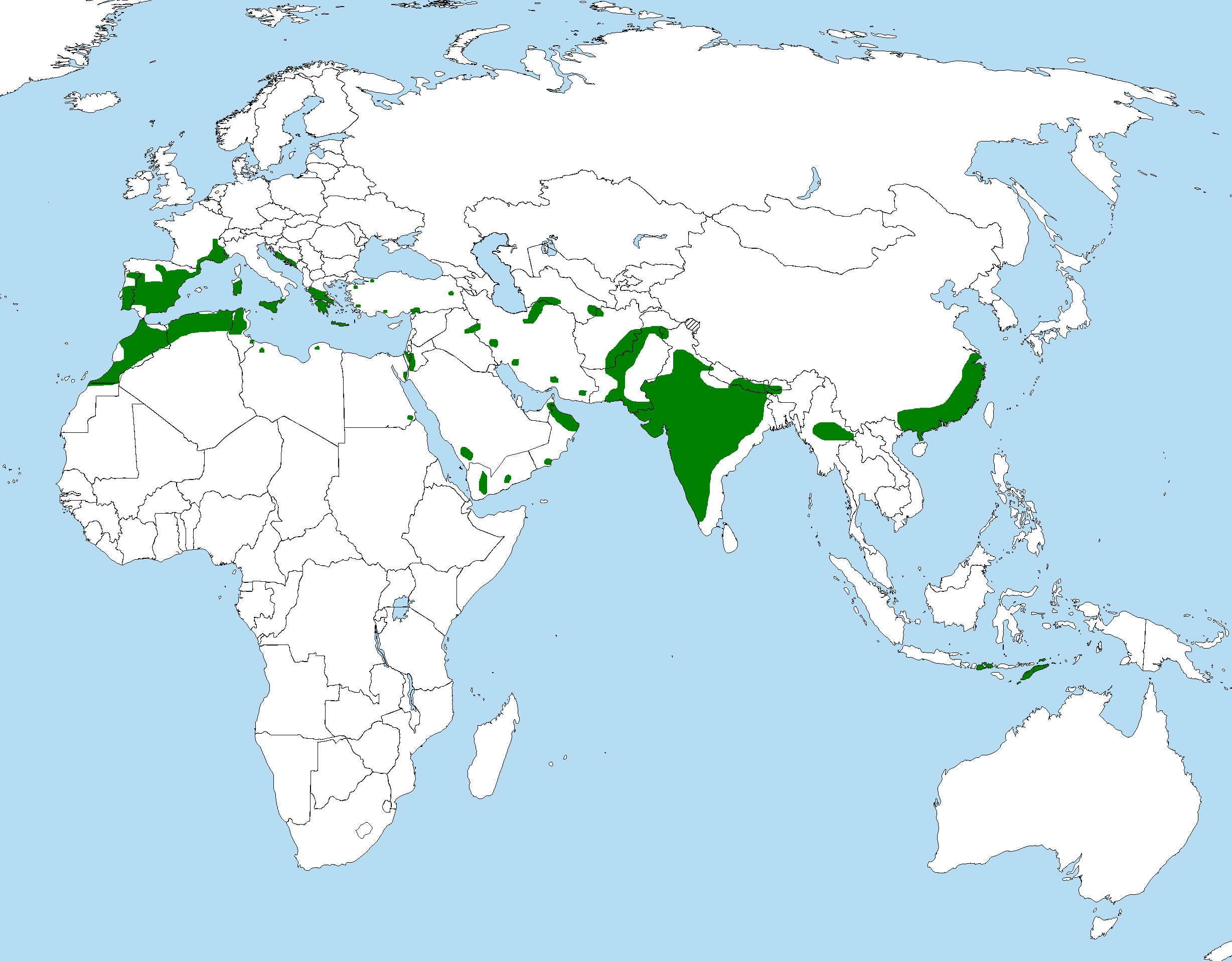 Aquila fasciata (syn. Hieraaetus fasciatus), breeding area. Based on T. Mebs und D. Schmidt: Die Greifvögel Europas, Nordafrikas und Vorderasiens. Franckh-Kosmos, Stuttgart, 2006. ISBN 3-440-09585-1 and J. Ferguson-Lees, D. A. Christie: Raptors of the World. Christopher Helm, London 2001. ISBN 0-7136-8026-1